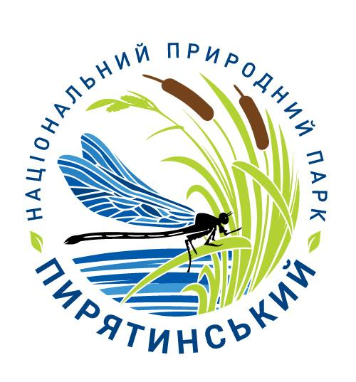 Pyriatynskyi National Nature Park